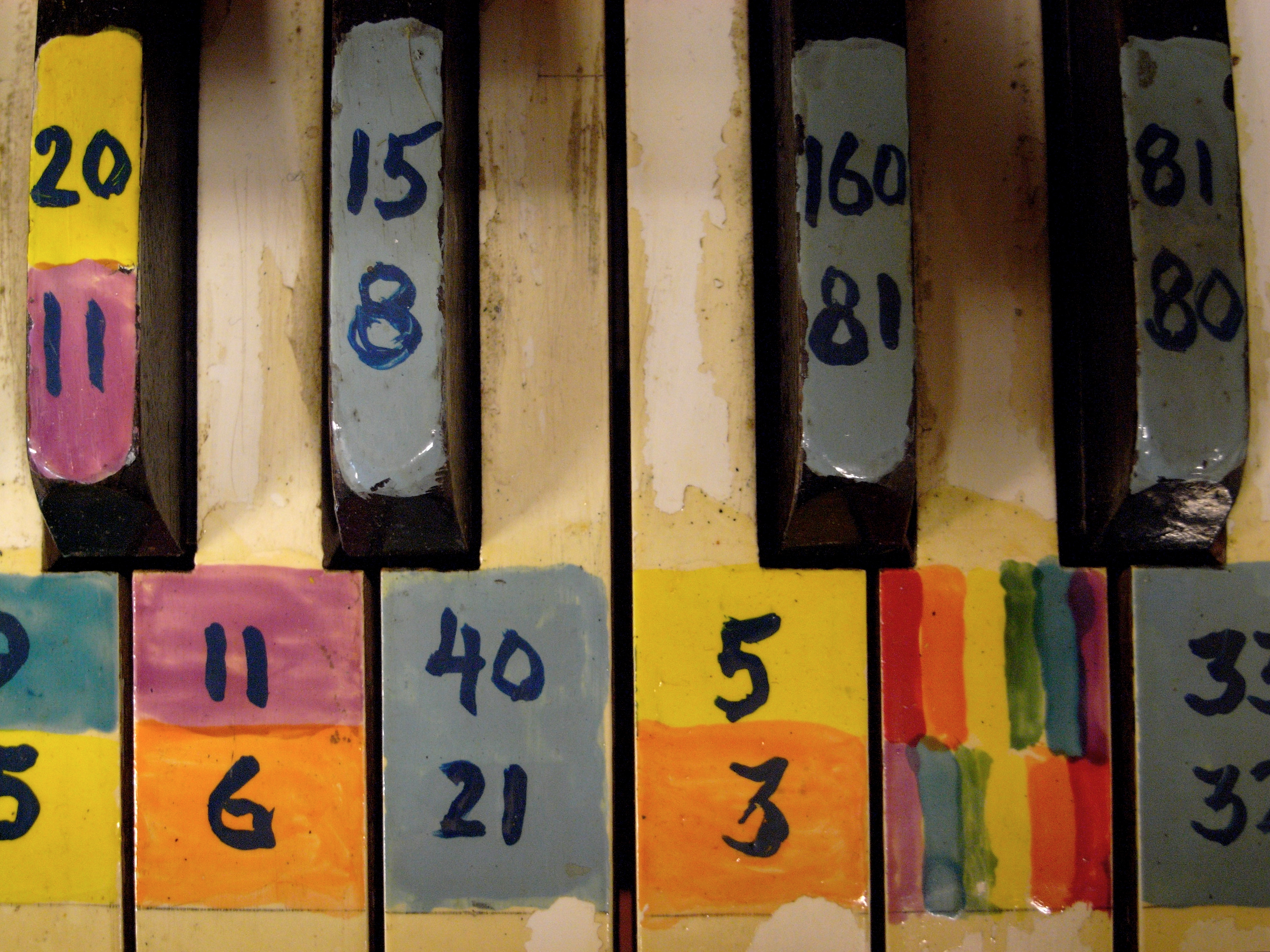 Harry Partch Institute open house 2008. Chromelodeon